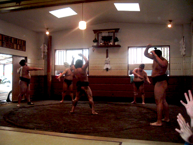 Sumo wrestlers during a practise session at their sumo stable